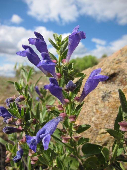 Scutellaria antirrhinoides, Carlin area, Elko County, Nevada, USA. This photo is in the public domain and may be freely used for any purpose.